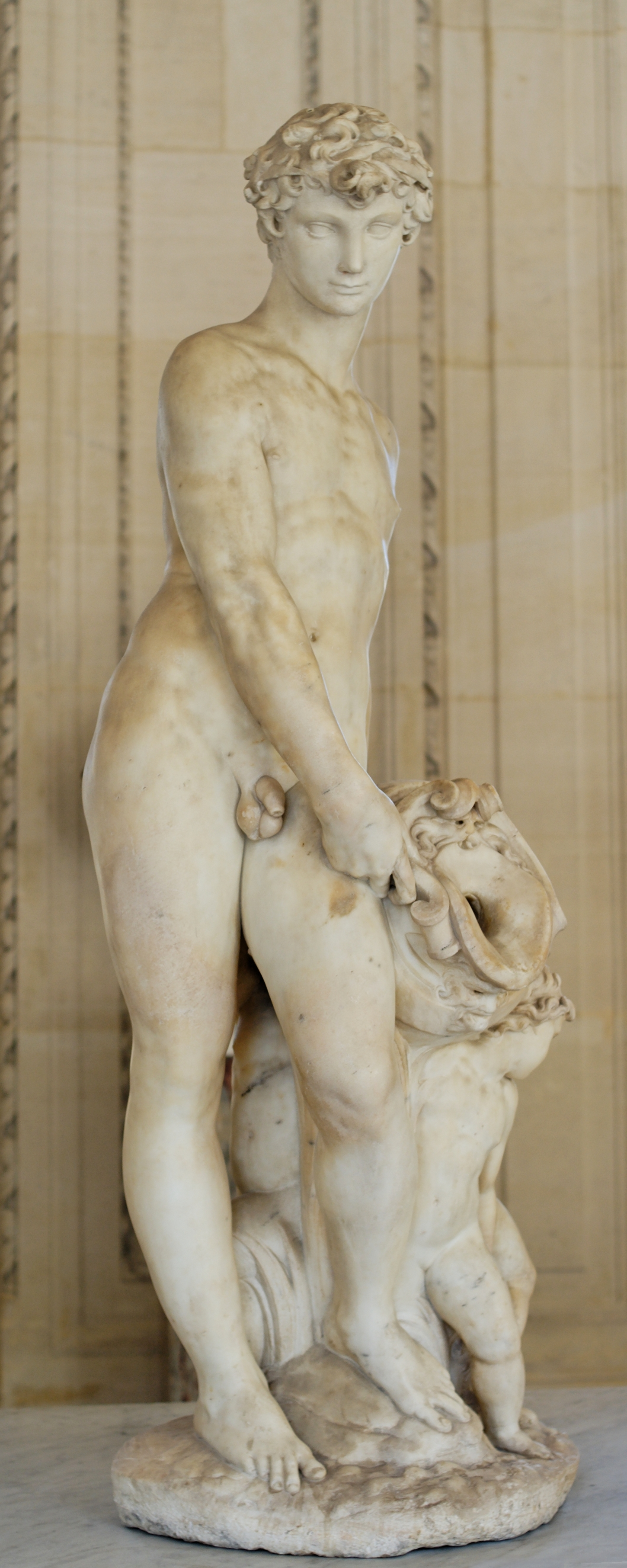 Young river god with three children. Given by Eleonore of Toledo, wife of Cosimo I of Tuscany, to her brother Garcia. From the Balzo palace in Naples.